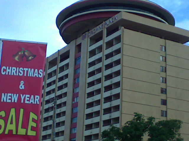 One of this country's hotels located on Wrightson Road in Port-Of-Spain.